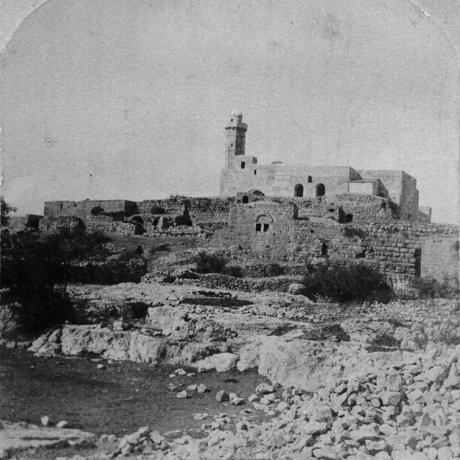 Site of Nabi Samwil village